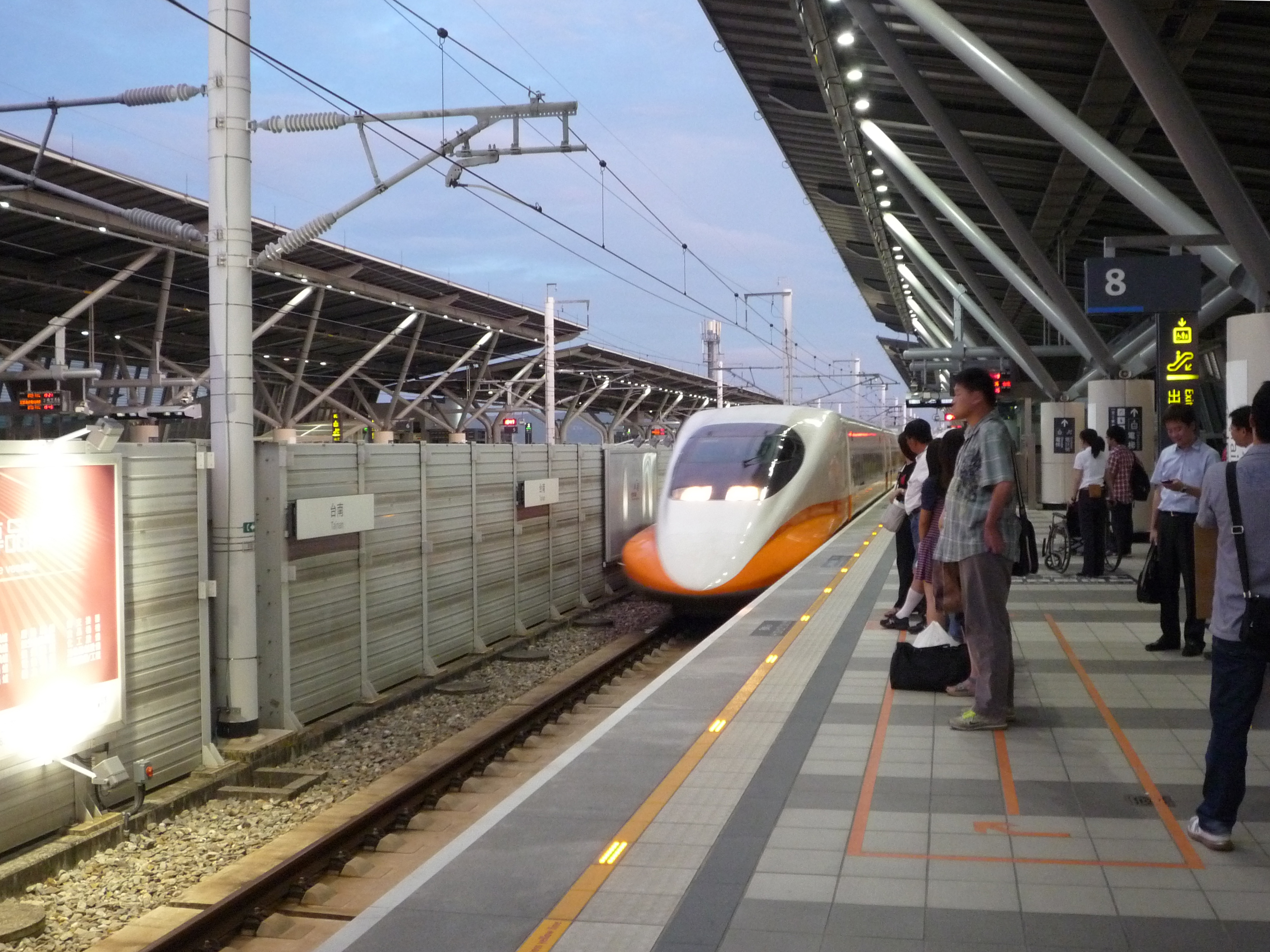 THSR 700T train at Northbound Platform of THSR Tainan Station.